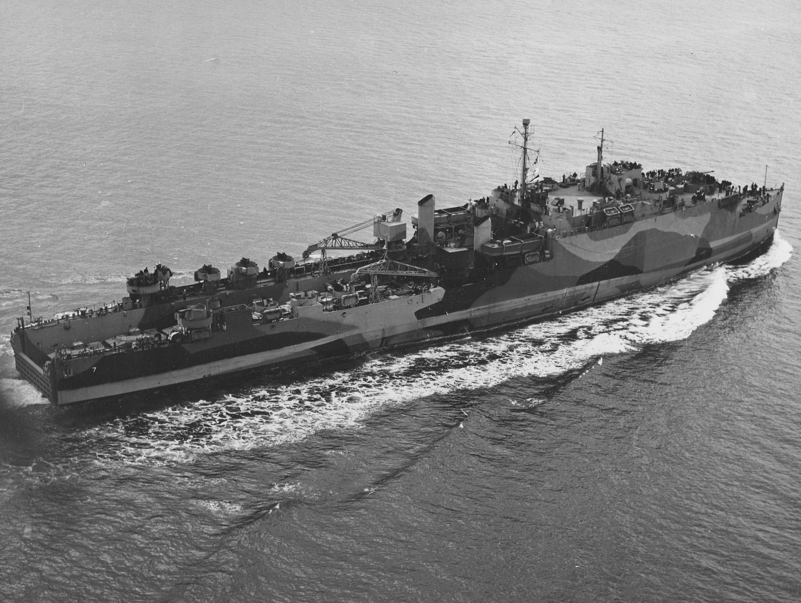 The U.S. Navy dock landing ship USS Oak Hill (LSD-7) underway off the coast of California (USA) on 21 April 1944, enroute to Pearl Harbor with two LCTs of Flotilla 13. LCT-984 and LCT-982 are loaded stern to stern in Oak Hill's well deck along with numerous LVTs.